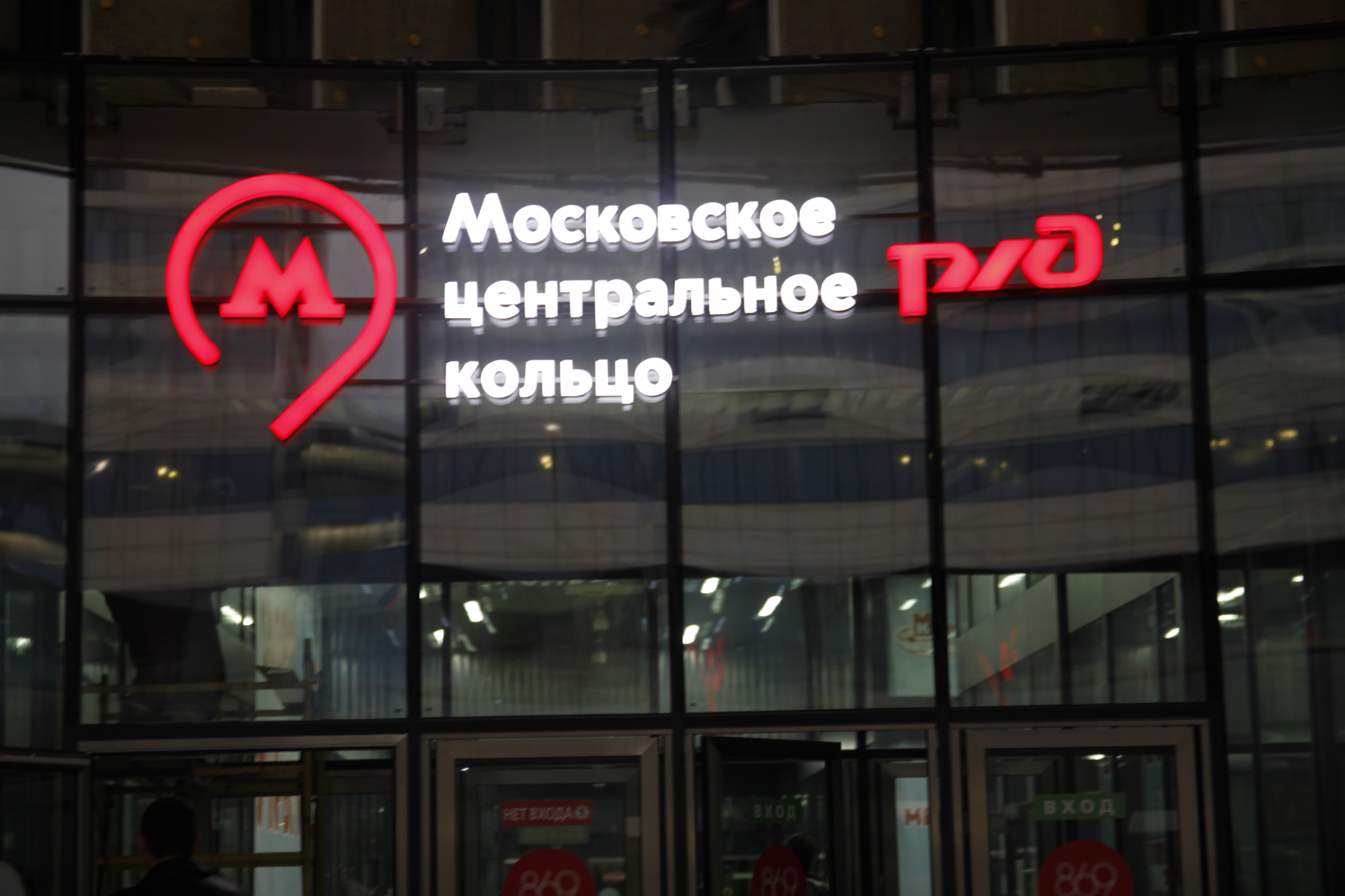 Delovoy Center (City) MCC station eastern entrance